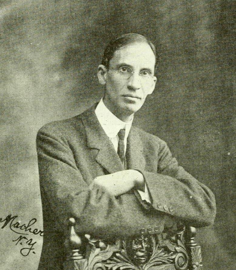 Portrait of the Henry Harrington Janeway (1873 – 1921), American physician and pioneer of radiation therapy